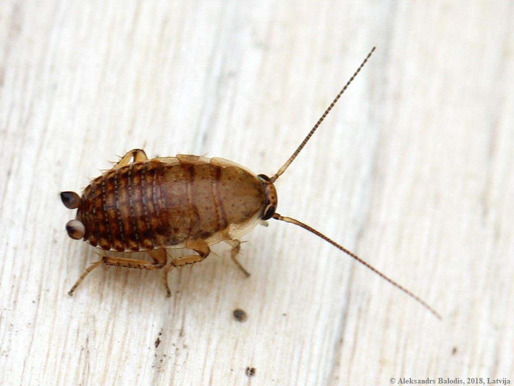 Ectobius lapponicus